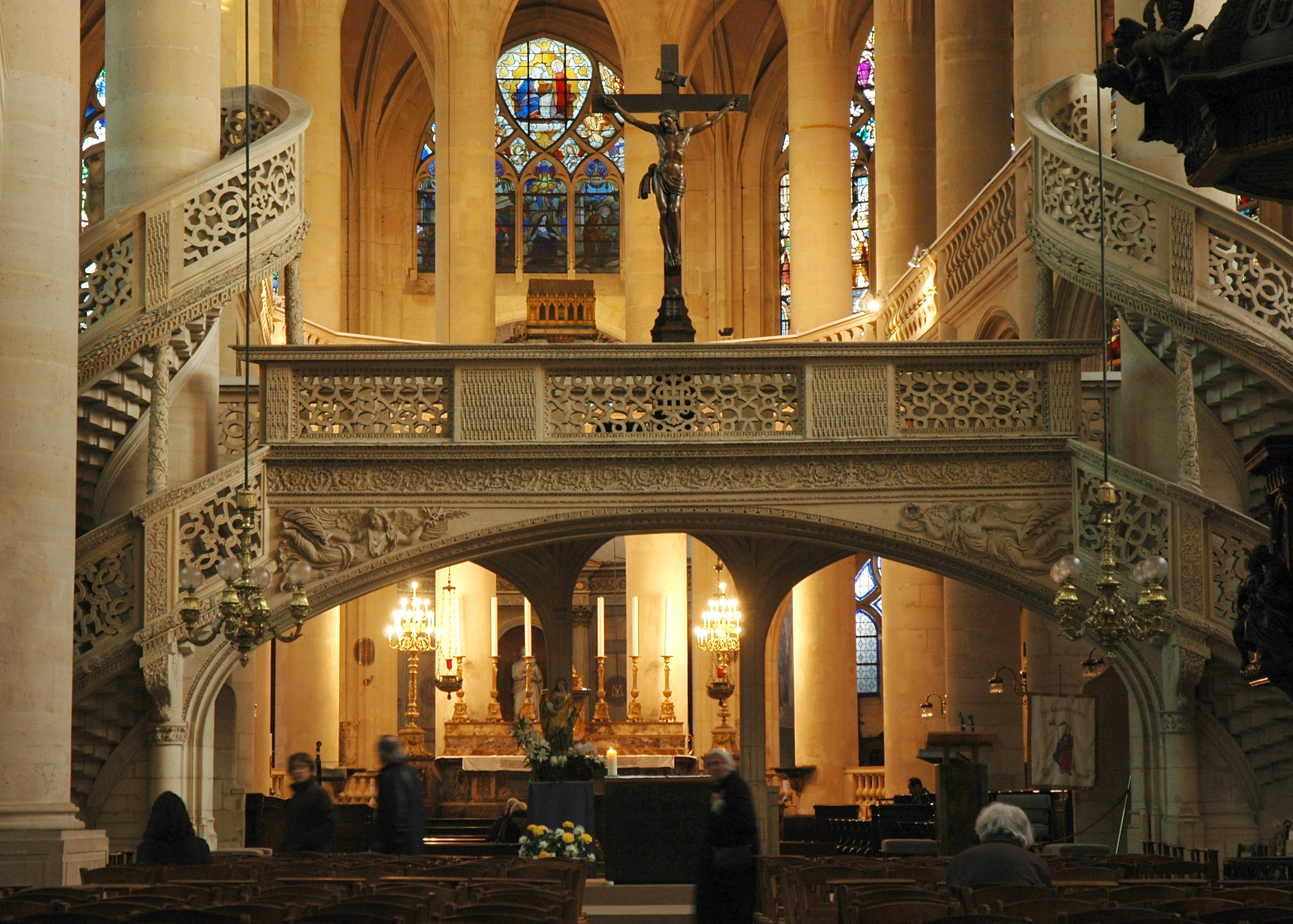 Jubé (rood screen) at Saint-Étienne-du-Mont, Paris, ca. 1530.